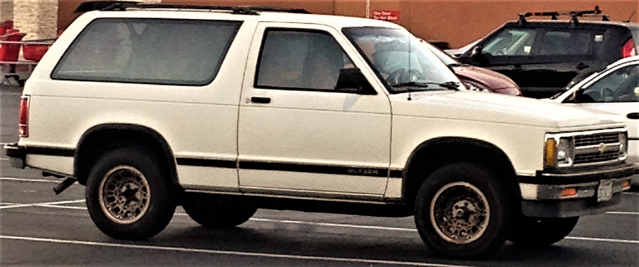 Chevy Blazer SUV (two-door version)